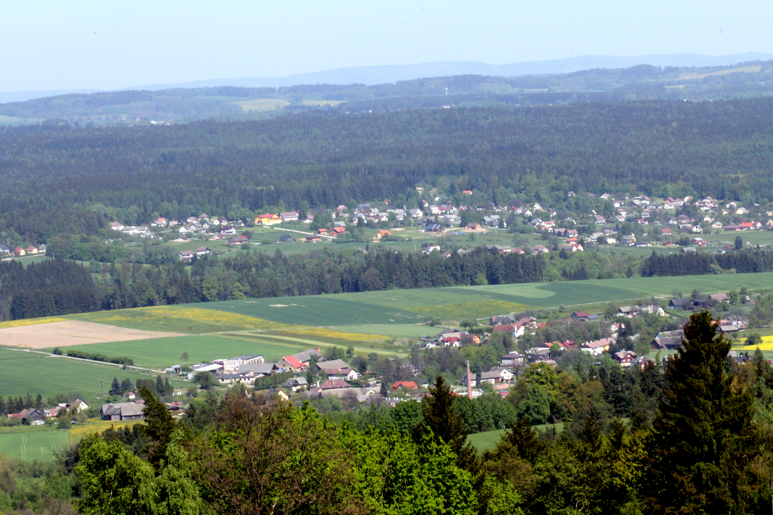 View from the hill Zvičina on villages Dolní Brusnice and Nemojov in east Bohemia, Czech Republic